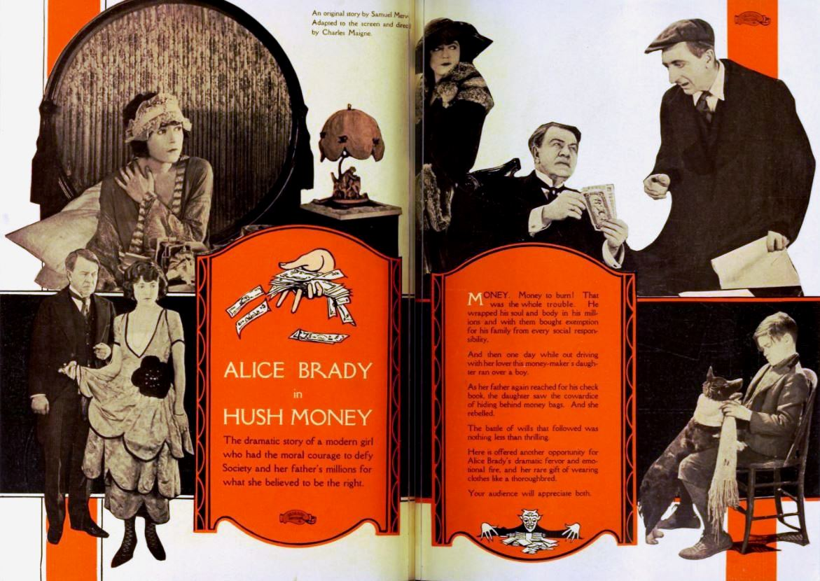 Advertisement for the American drama film Hush Money (1921) with Alice Brady, George Fawcett, child actor Jerry Devine, and an unidentified actor, from the insert after page 10 of the October 22, 1921 Exhibitors Herald.